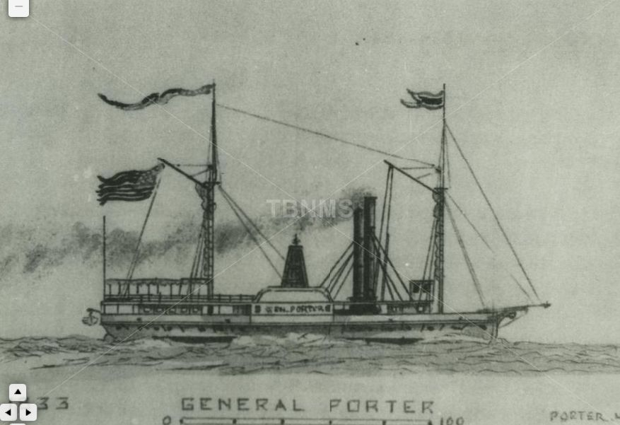 The General Porter, later the HMS Toronto and the Sir Charles Adams.